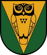 Source: "Fahnen-Gärtner GmbH, Mittersill" This file depicts a coat of arms. The composition of coats of arms are generally public domain with respect to copyright laws, and may be reproduced freely. This corresponds to the international traditional usage, and is explicitly stated in some national copyright laws. Some compositions, of more recent origin, may be copyrighted. This is not a valid license as such, being a "public domain" statement for the coat of arms definition only. It must be completed with the copyright tag associated to the picture creation. See Commons:Coats of arms for further information. Please note that this applies only to the coat of arms definition (composition / description). The representation of a coat of arms is an artistic creation, subject as such to copyright laws. Restriction of use - Legal notice: Most of the time, the usage of coats of arms is governed by legal restrictions, independent of the status of the depiction shown here. A coat of arms represents its owner. Though it can be freely represented, it cannot be appropriated, or used in such a way as to create a confusion with or a prejudice to its owner. Usage on Commons: Please provide licence information for the coat of arm representation, information for the author of the picture, and the source if not self-made work. This image is in the public domain according to Austrian copyright law because it is part of a law, ordinance or official decree issued by an Austrian federal or state authority, or because it is of predominantly official use. (§7 UrhG) To uploader: Please provide where the image was first published and who created it.